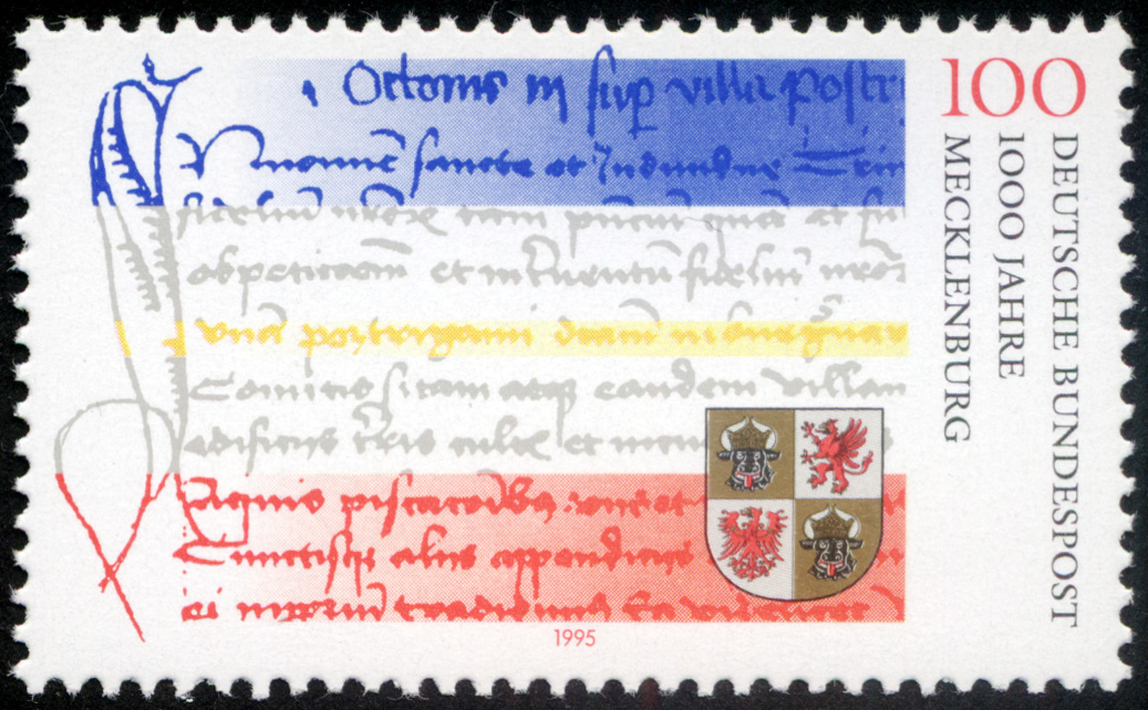 Stamp from Deutsche Post AG from 1995, 1000th anniversary of Mecklenburg